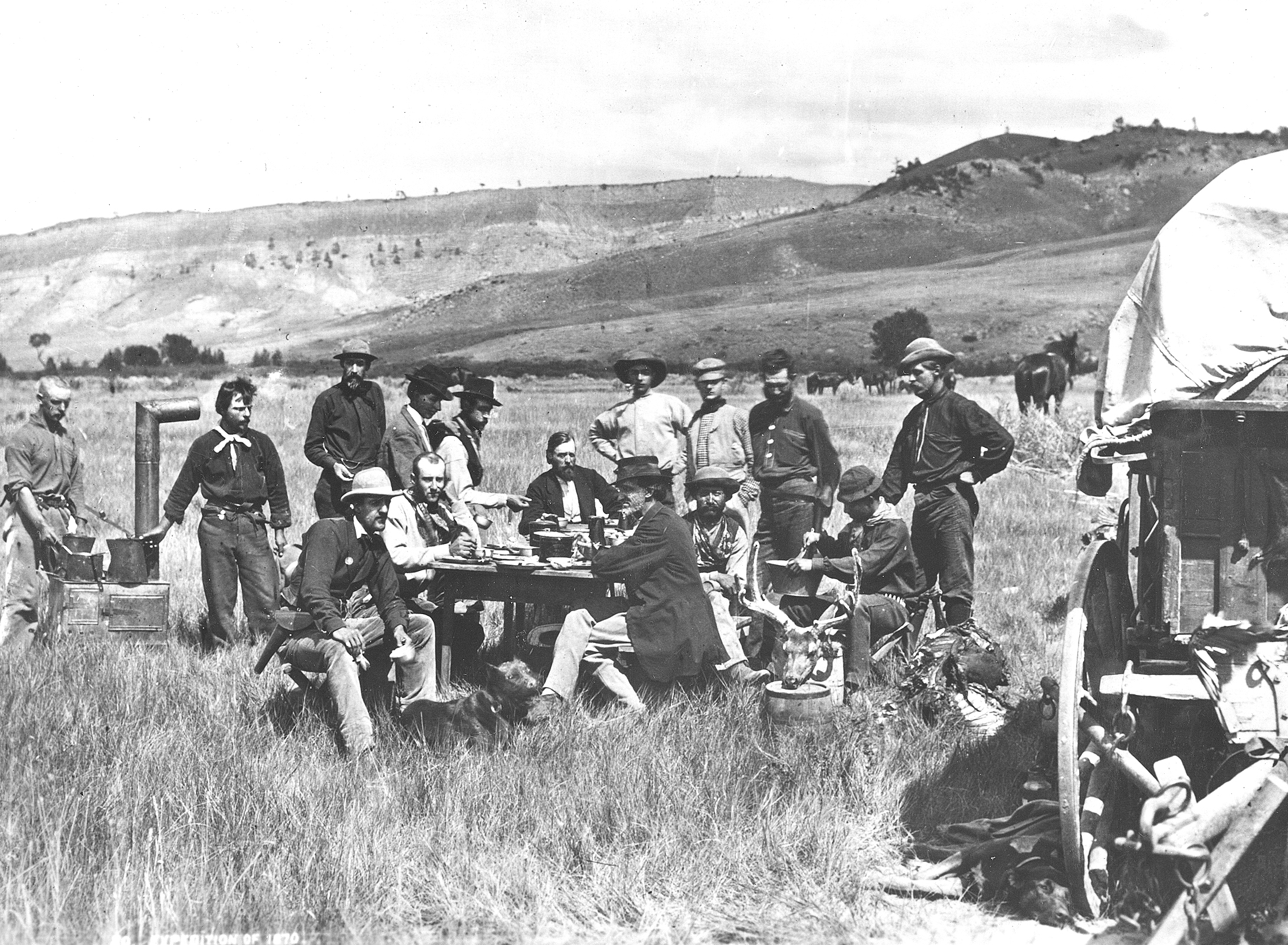 Wyoming. Group of all the members of the Hayden Geological Survey of 1870, made while in camp at Red Buttes at the junction of the North Platte and Sweetwater Rivers. Standing left to right: John "Potato John" Raymond and "Val," cooks; Sanford R. Gifford, landscape painter; Henry W. Elliott, artist; James Stevenson, assistant; H.D. Schmidt, naturalist; E. Campbell Carrington, zoologist; L.A. Bartlett, general assistant; William Henry Jackson, photographer. Sitting left to right: C.S. Turnbull, secretary; J.H. Beaman, meteorologist; Ferdinand V. Hayden, geologist in charge; Cyrus Thomas, agriculturist; Raphael, hunter; A.L. Ford, mineralogist. 1870. U.S. Geological and Geographical Survey of the Territories (Hayden Survey).